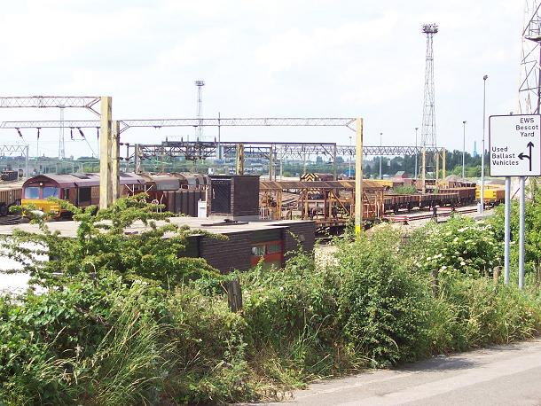 Bescot Marshalling Yards. Just a little bit of this huge compound.